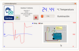 Arduino and Gambas3: Graph of sensors